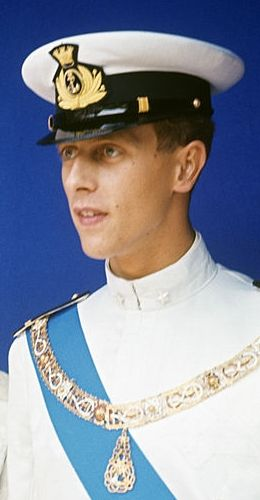 Prince Amedeo, Duke of Aosta (b. 1943) on the day of his marriage to Princess Claude of Orléans in July 1964.